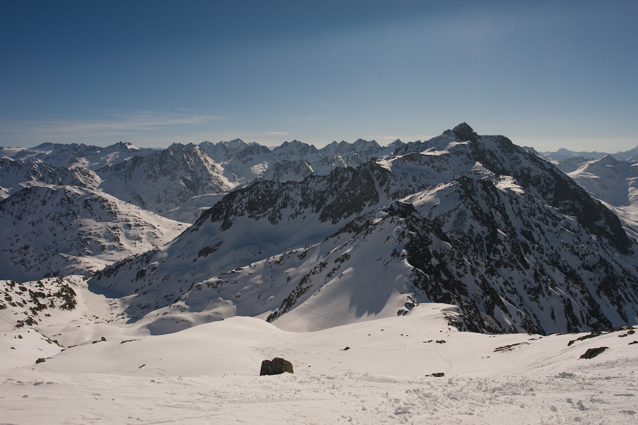 View from north to Piz Badus. Tomasee, source of the Rhine left and Maighelshütte behind, from where Piz Badus is often reached